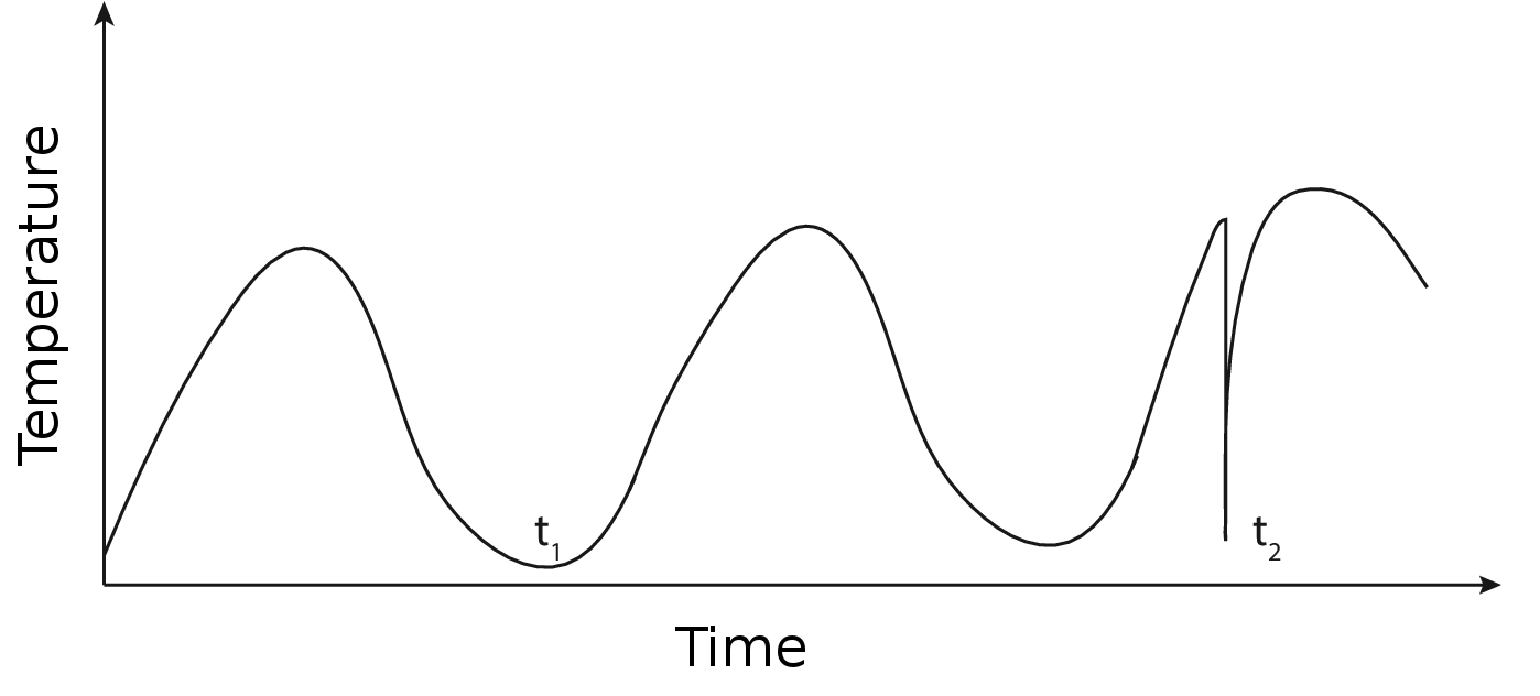 An example of contextual outlier. Point labeled t2 (temperature value) is an outlier in the given context (time), while in some other context it could be a normal data point.